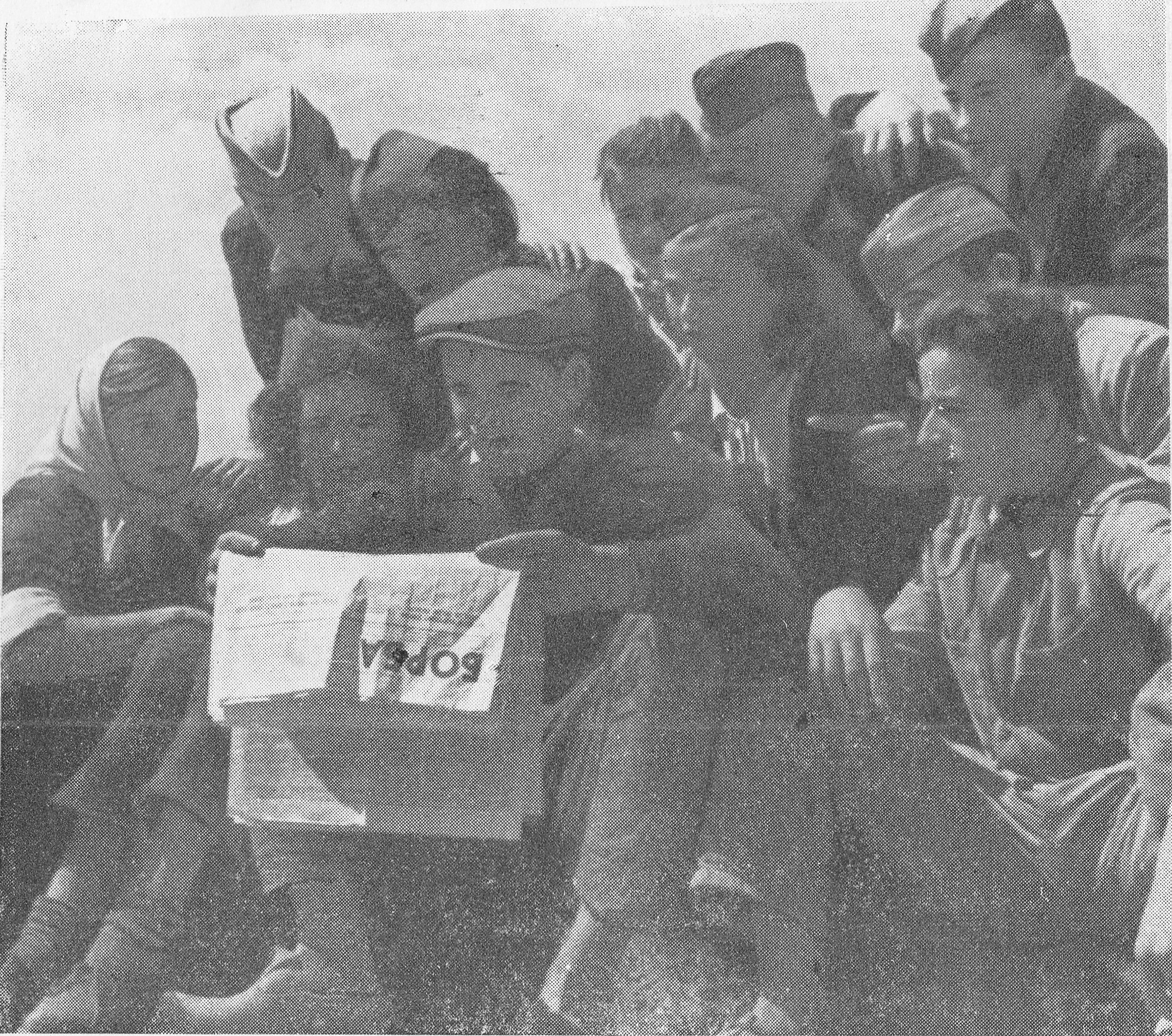 Volunteer workers have a rest while reading the newspaper "Borba" (New Belgrade, 1948-1950)